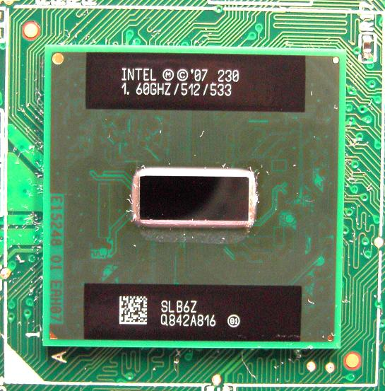 Intel Atom 230, 1,6Ghz